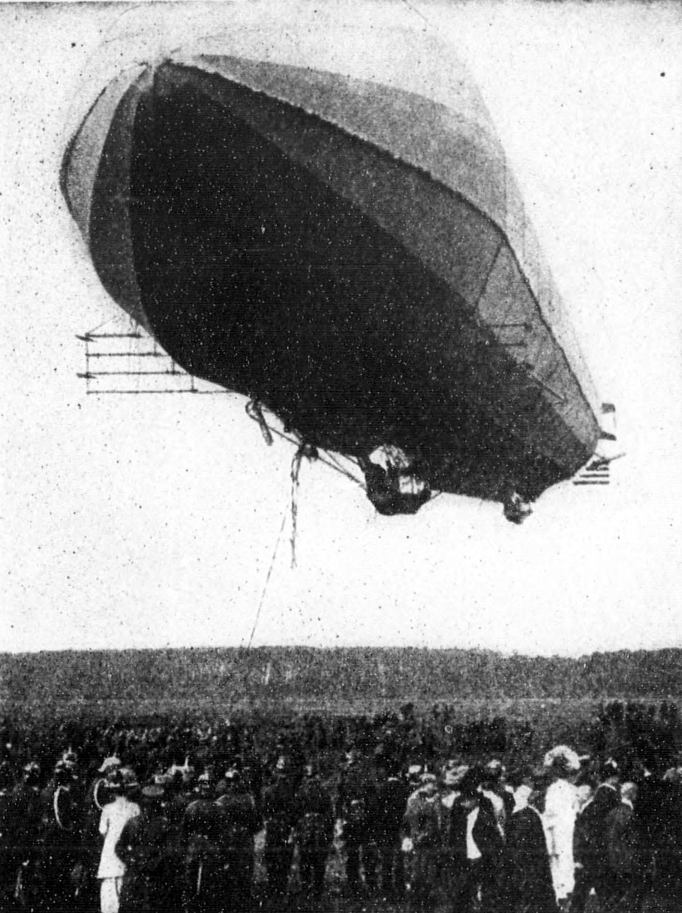 The original contemporary source only named this as the "Zeppelin III" but I believe in good faith that it is the LZ 3 based on context clues. Original caption: A few seconds before the landing of the airship in the German capital'